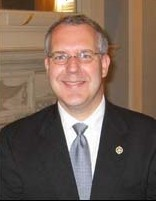 Oklahoma governor Brad Henry with Drug Enforcement Administration Group Supervisor John Kushnir